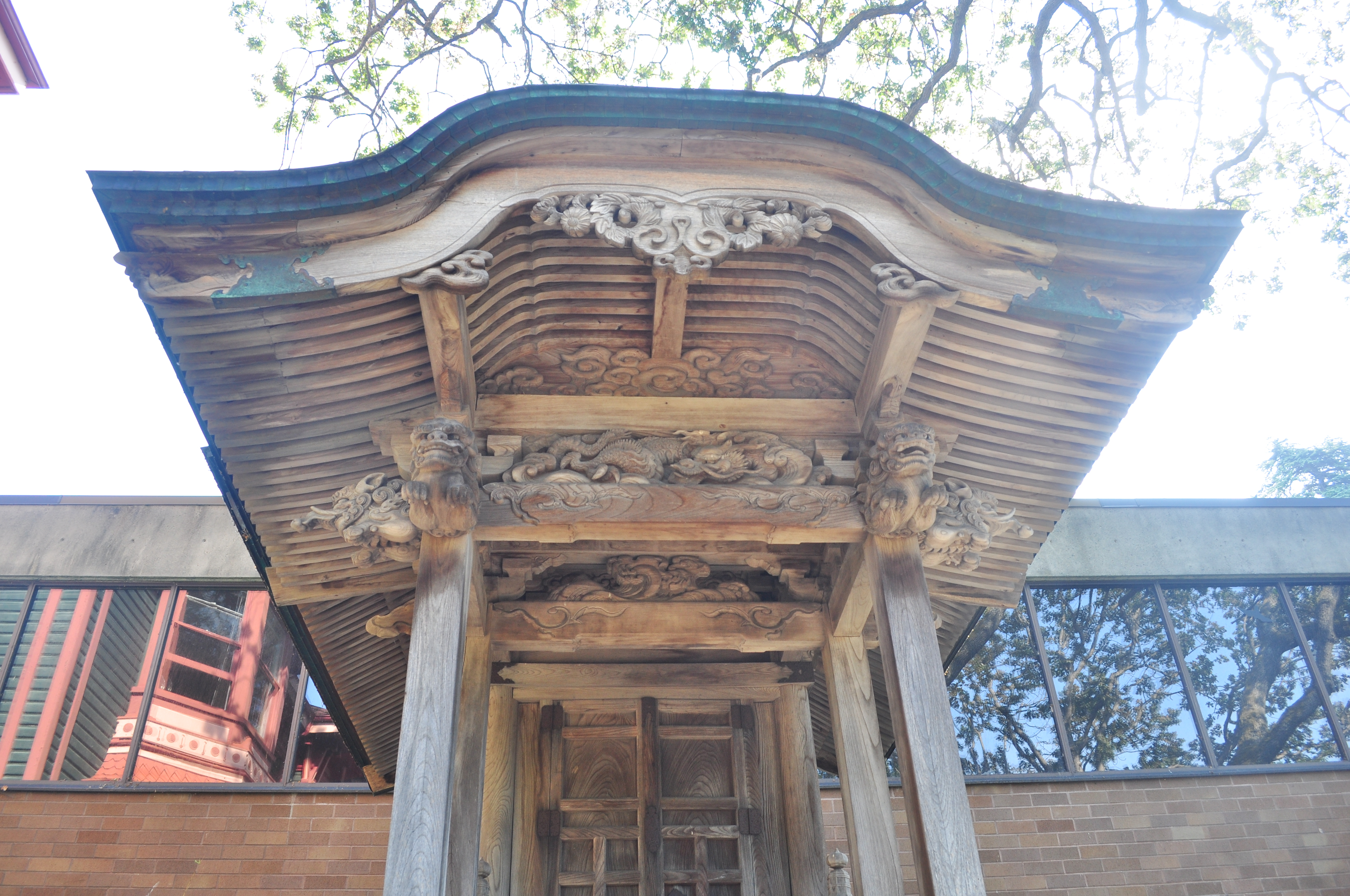 Detail, Shinto shrine (originally from Japan, built 1903), Art Gallery of Greater Victoria, Victoria, British Columbia.